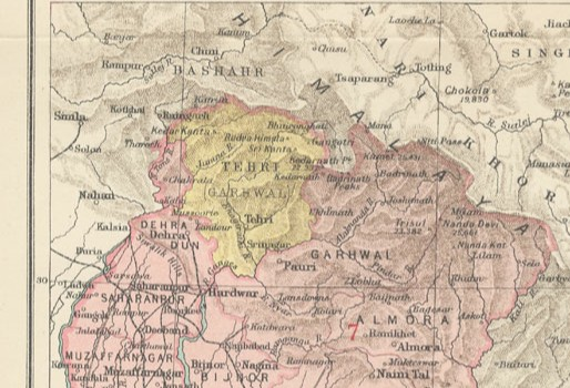 This is the map of Tehri Garhwal state made by British cartographer John G Bartholomew